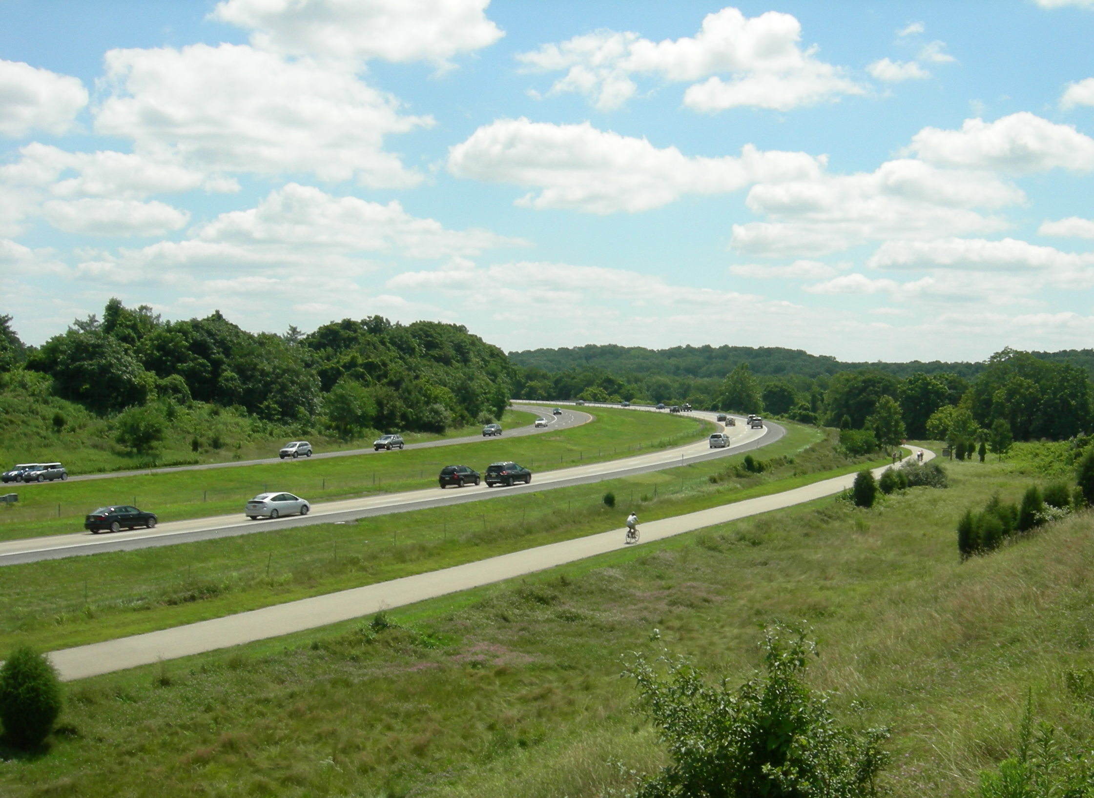 "St. Gabe's Curve" (Rte. 422 at Saint Gabriel's Hall), Audubon, Lower Providence Township, Pennsylvania.